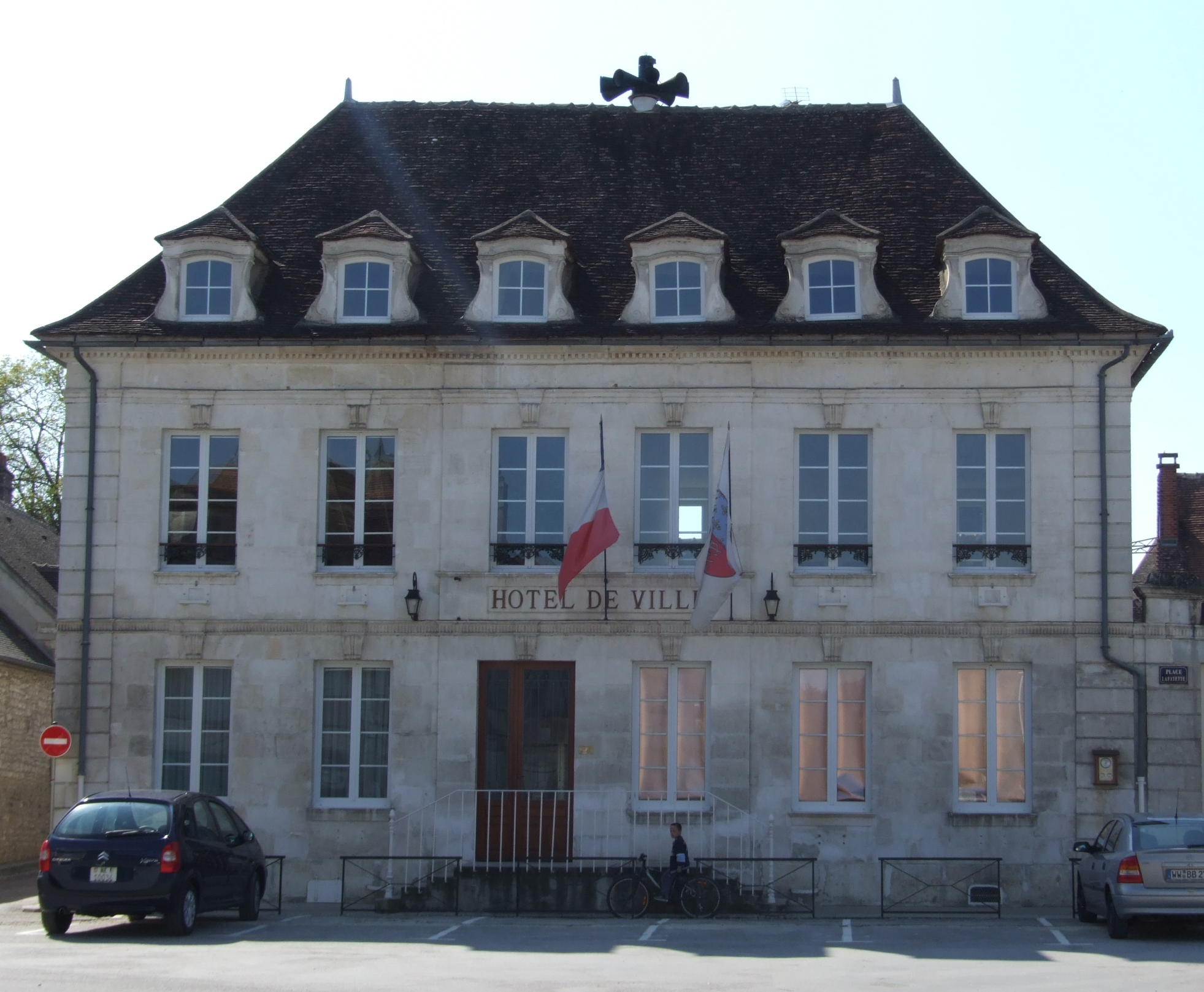 Town hall, Chablis, Burgundy, FRANCE